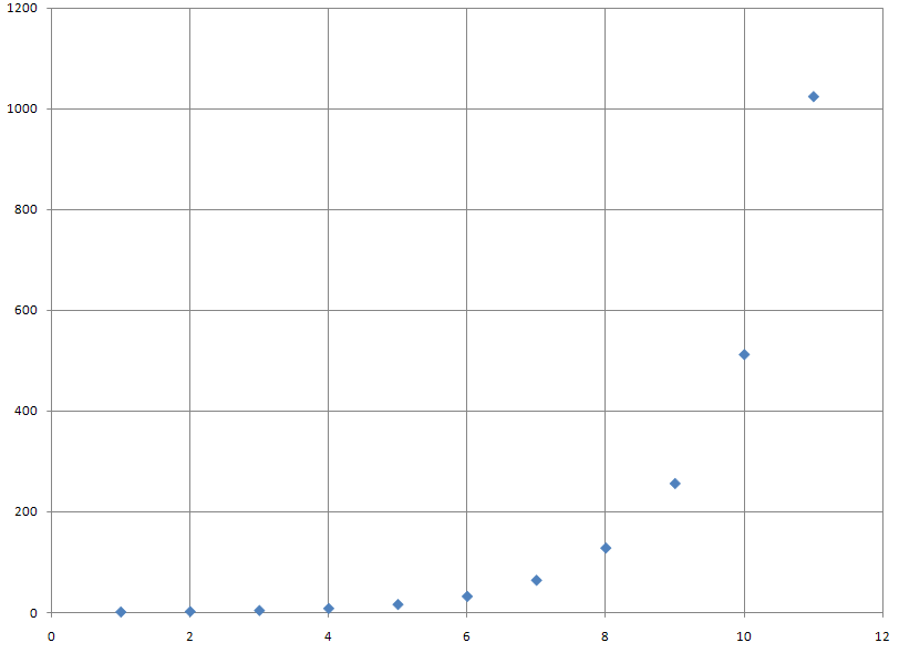 Geometrical progression, α1=1 and λ=2.